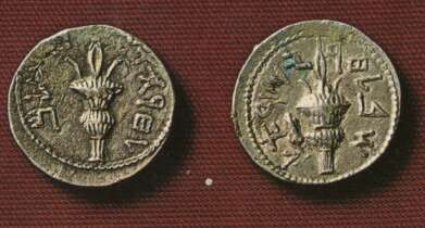 Coins from the Bar Kochba revolt, showing the four species (in this case three of them, the etrog is not listed here). Taken from the monumental work of Yigael Yadin, Bar - Kochba, and taken from the memorial and heritage Kfar Etzion.